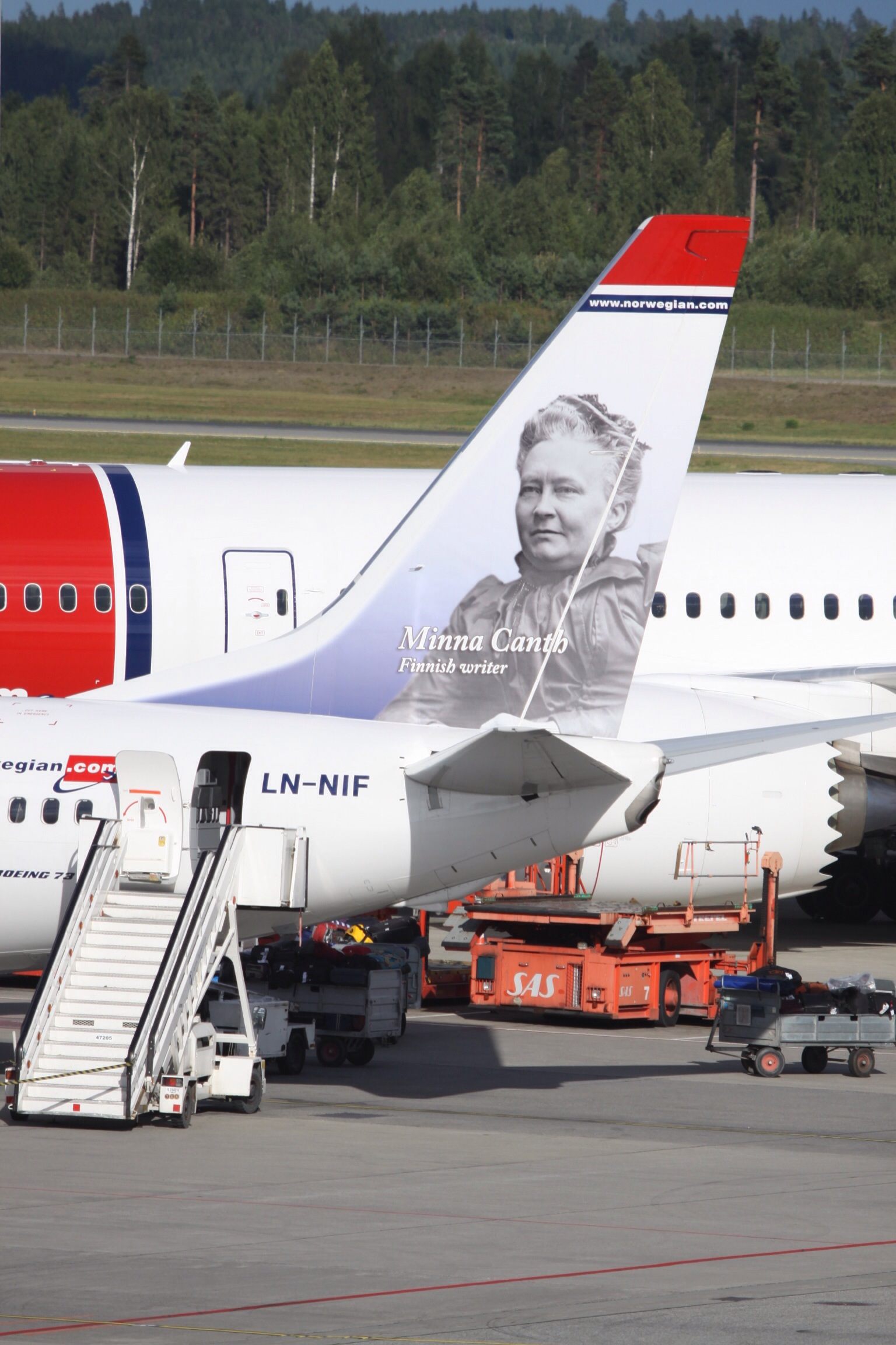 At Oslo Gardermoen